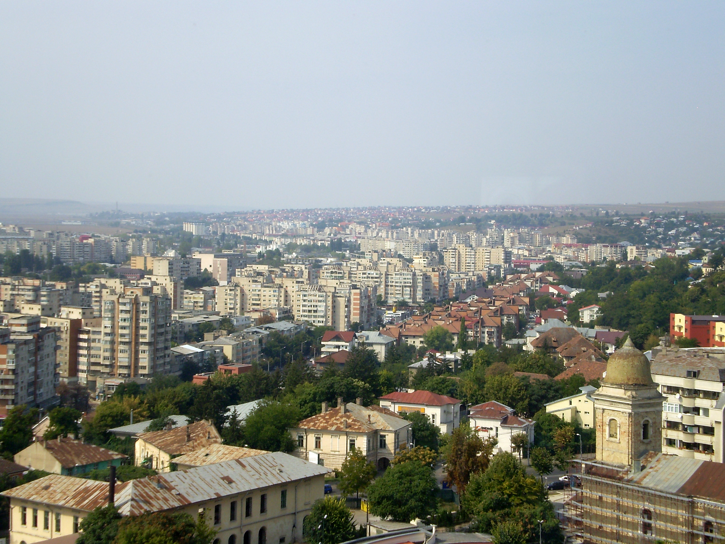 Iași, panoramic view to the districts Autogară, Canta, Păcurari, Iași, Romania